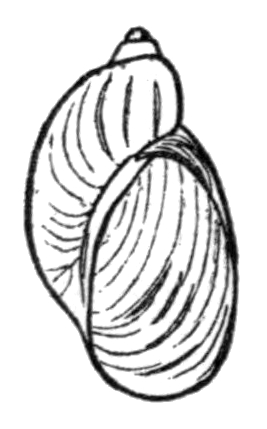 drawing of the shell of Novisuccinea ovalis, synonym Succinea ovalis.